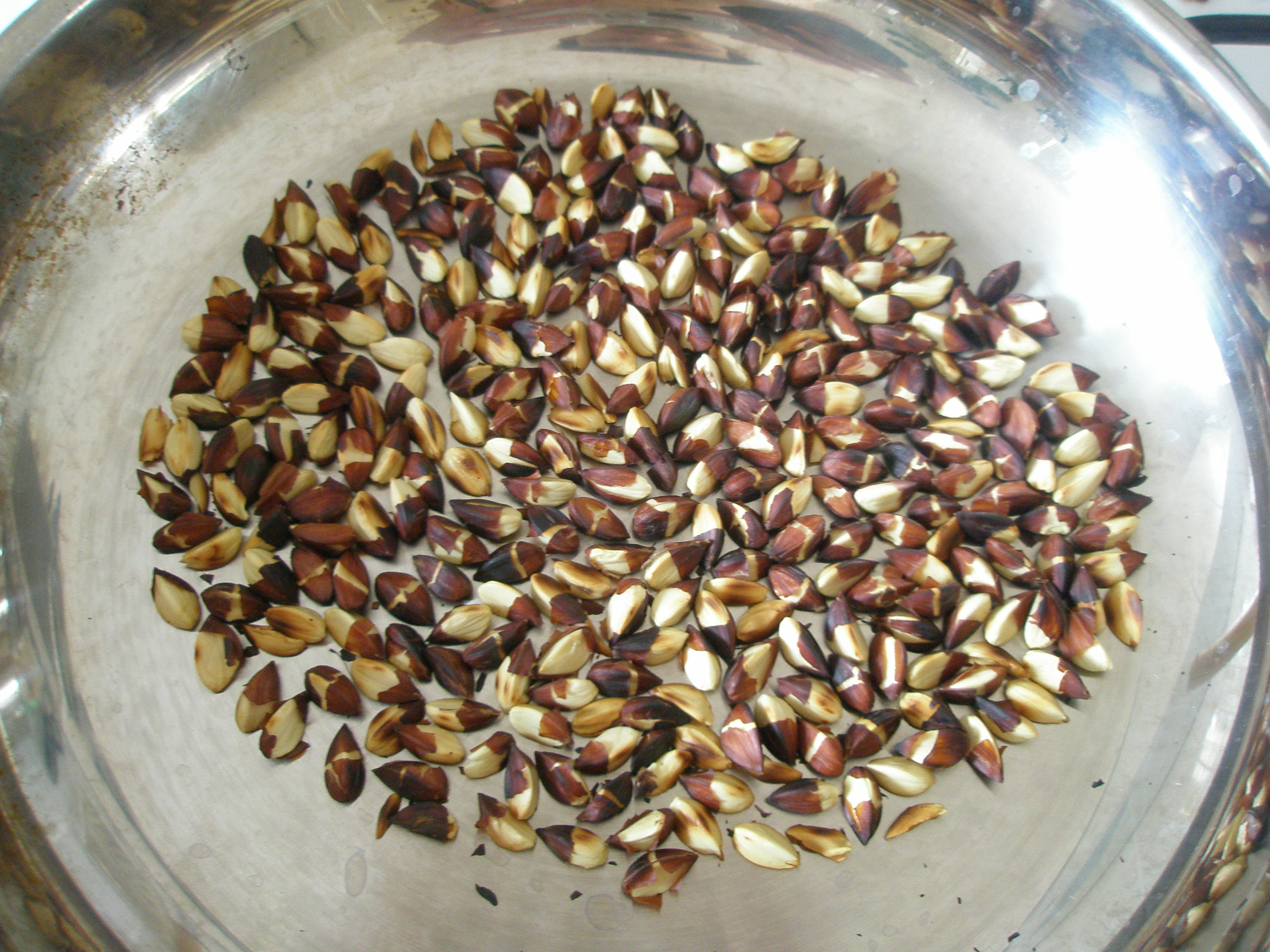 Roasted beech nuts in a pan